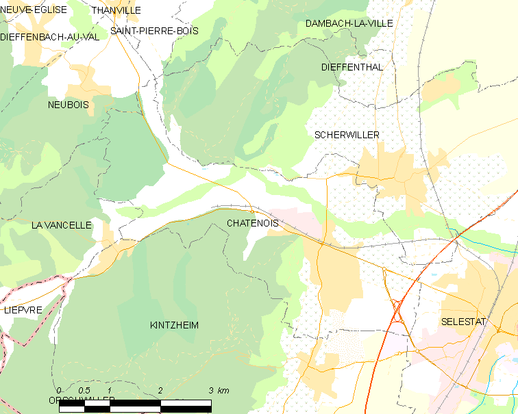 Map of French municipality